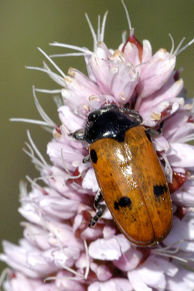 Picture taken in Commanster, Belgian High Ardennes . Species: Clytra quadripunctata